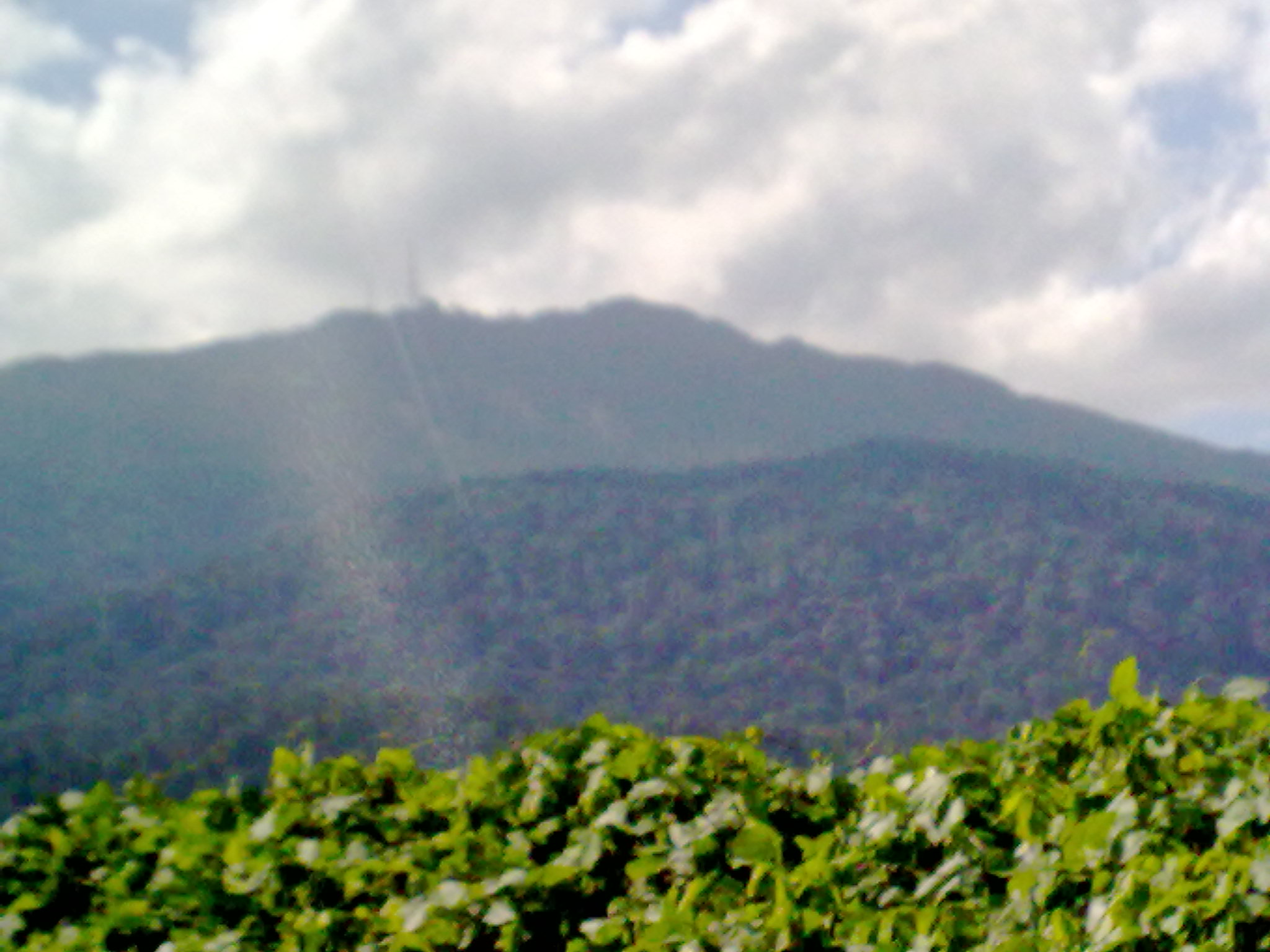 Gunung Ledang